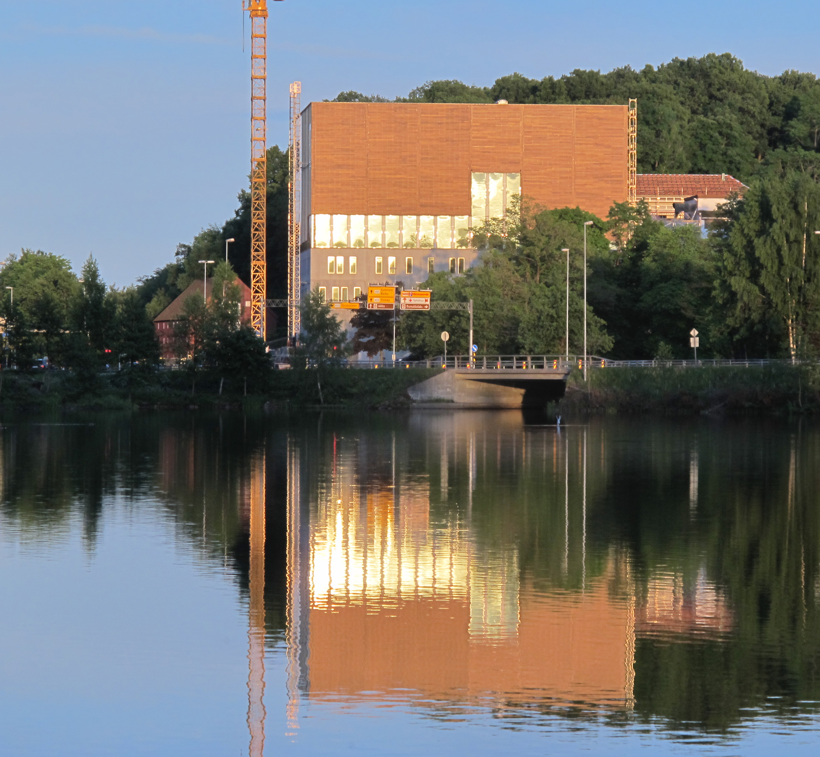 Aust-Agder kulturhistoriske senter in Arendal, Norway, museum and archive, opens in 2014